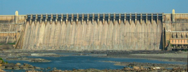 nagarjuna sagar